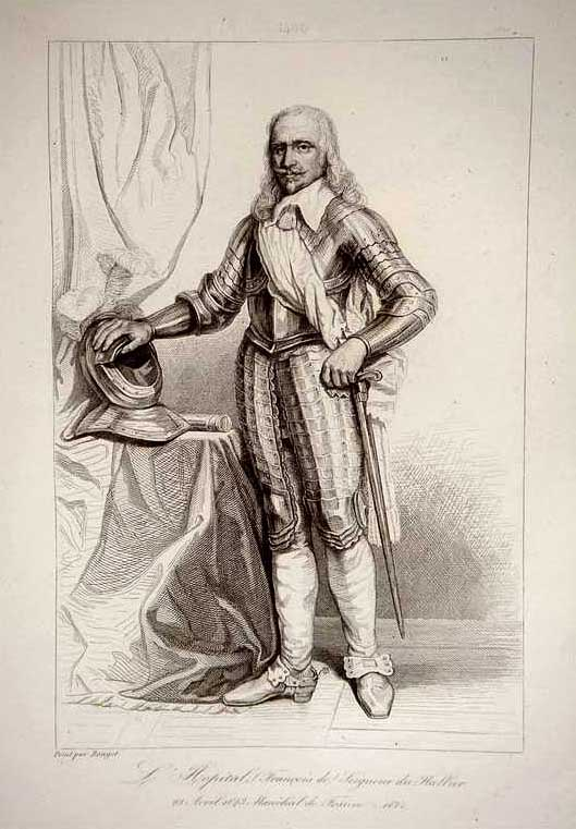 Artist UnknownTitle